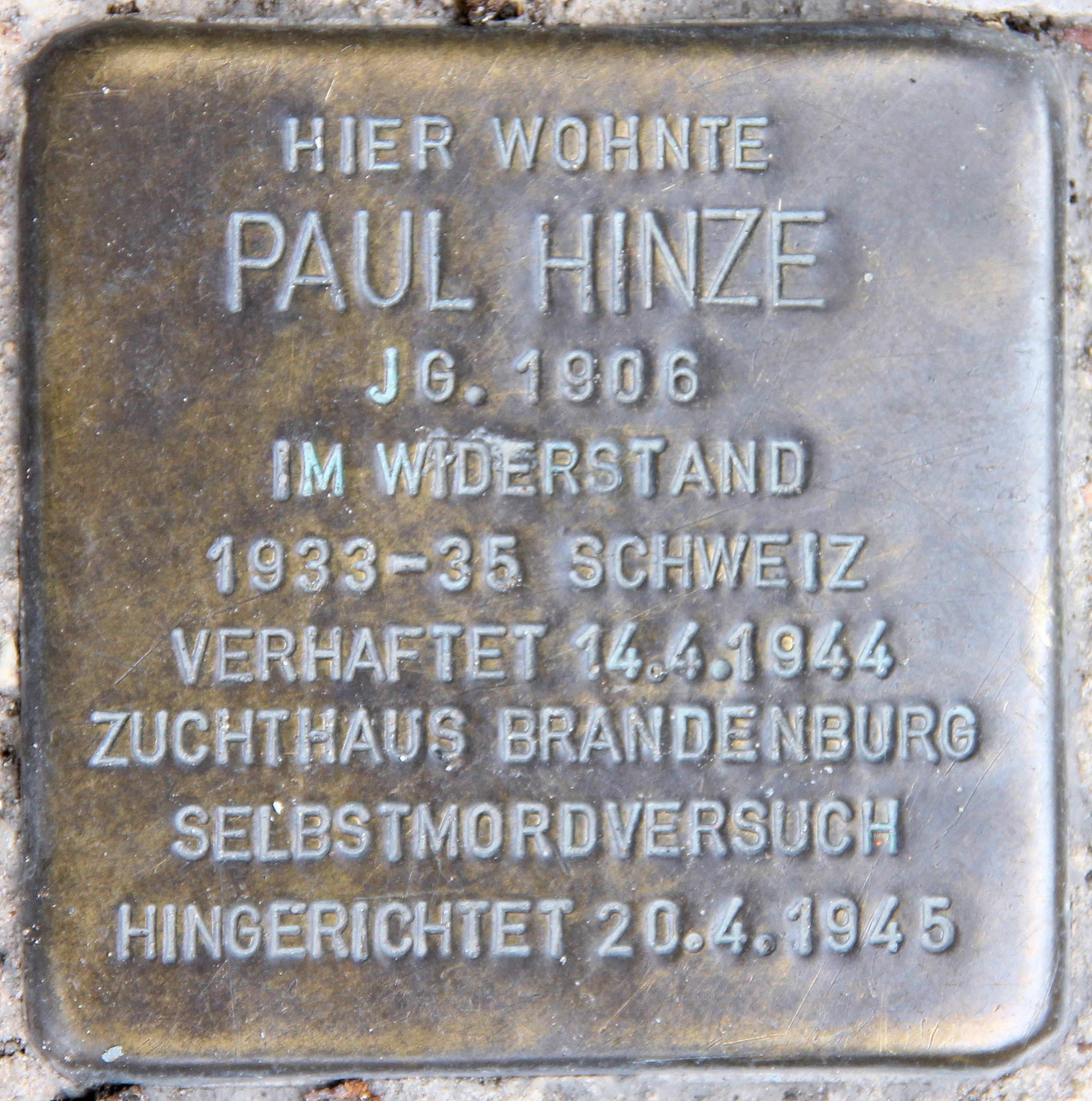 "Stolperstein" (stumbling block), Paul Hinze, Kolonnenstraße 46, Berlin-Schöneberg, Germany Koordinate:52°29′7″N 13°21′50″E / 52.48528°N 13.36389°E